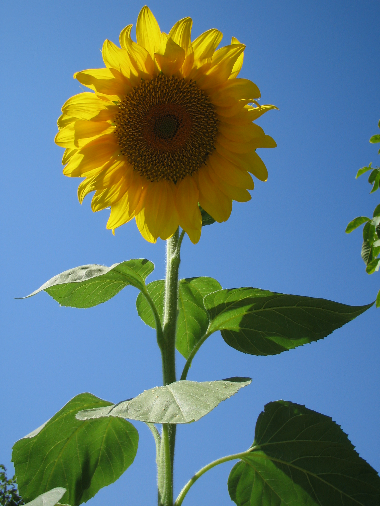 A sunflower, photographed in Samghabad village, near Taleghan, Iran